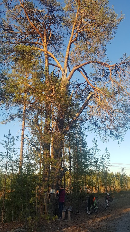 Ljuskronan, an old pine that survived a forest fire 1771 in Örnsköldsvik.